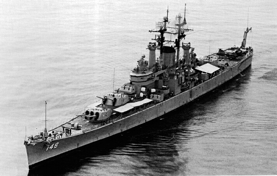 USS Newport News (CA-148) sometime after 1972, when her #2 turret, center gun exploded. The turret was not restored to service and the remaining 2 guns were fixed in place.